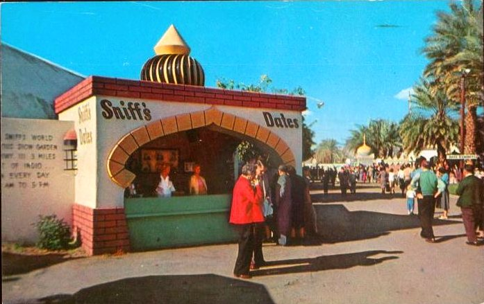 Color photochrome postcard depicting a date vendor at the National Date Festival Riverside County Fair in the 1950s, in Indio, California. This postcard is postmarked from Palm Springs, California on February 1960. The back of the postcard reads: G-228–SNIFF'S DATE SHOPNATIONAL DATE FESTIVALRIVERSIDE COUNTY FAIR, INDIO, CALIF.This unique shop features America's finest selections of rare varieties of dates.POSTCARDS OF THE DESERT, PALM SPRINGS, CALIFORNIACURTEICHCOLOR ® 3-D NATURAL COLOR REPRODUCTION (REG. U. S. A. PAT OFF.)